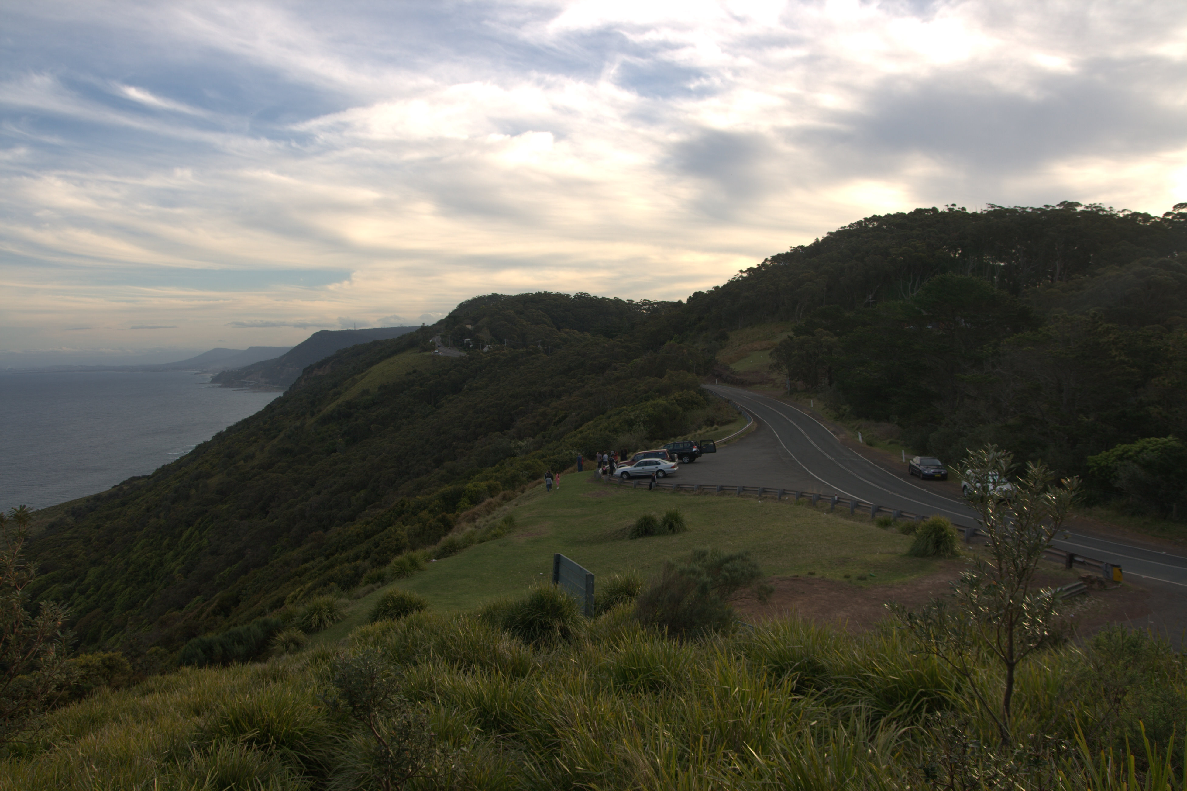 Otford Lookout, Otford, New South Wales, Australia